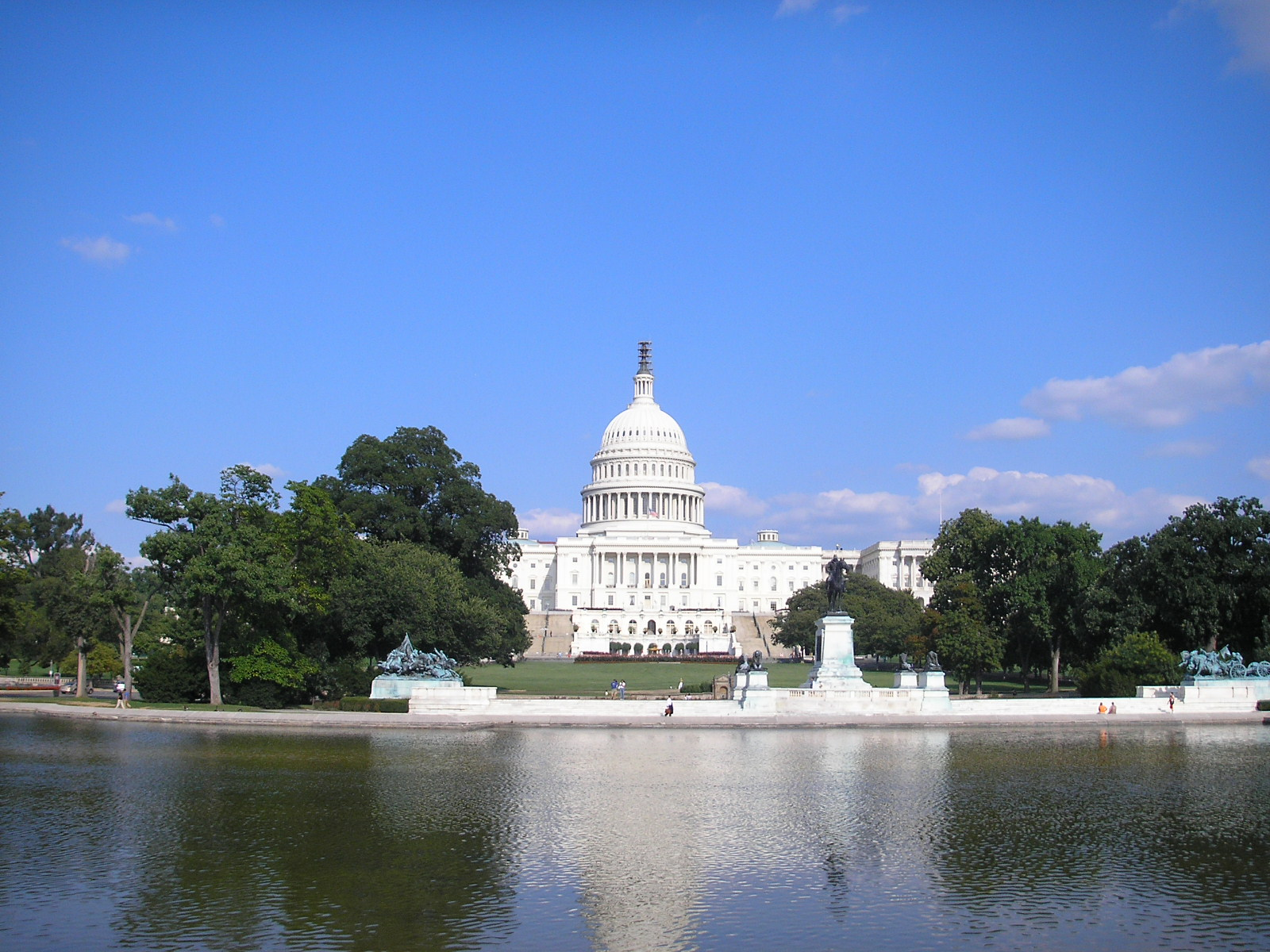 Exterior of the U.S. Capitol.